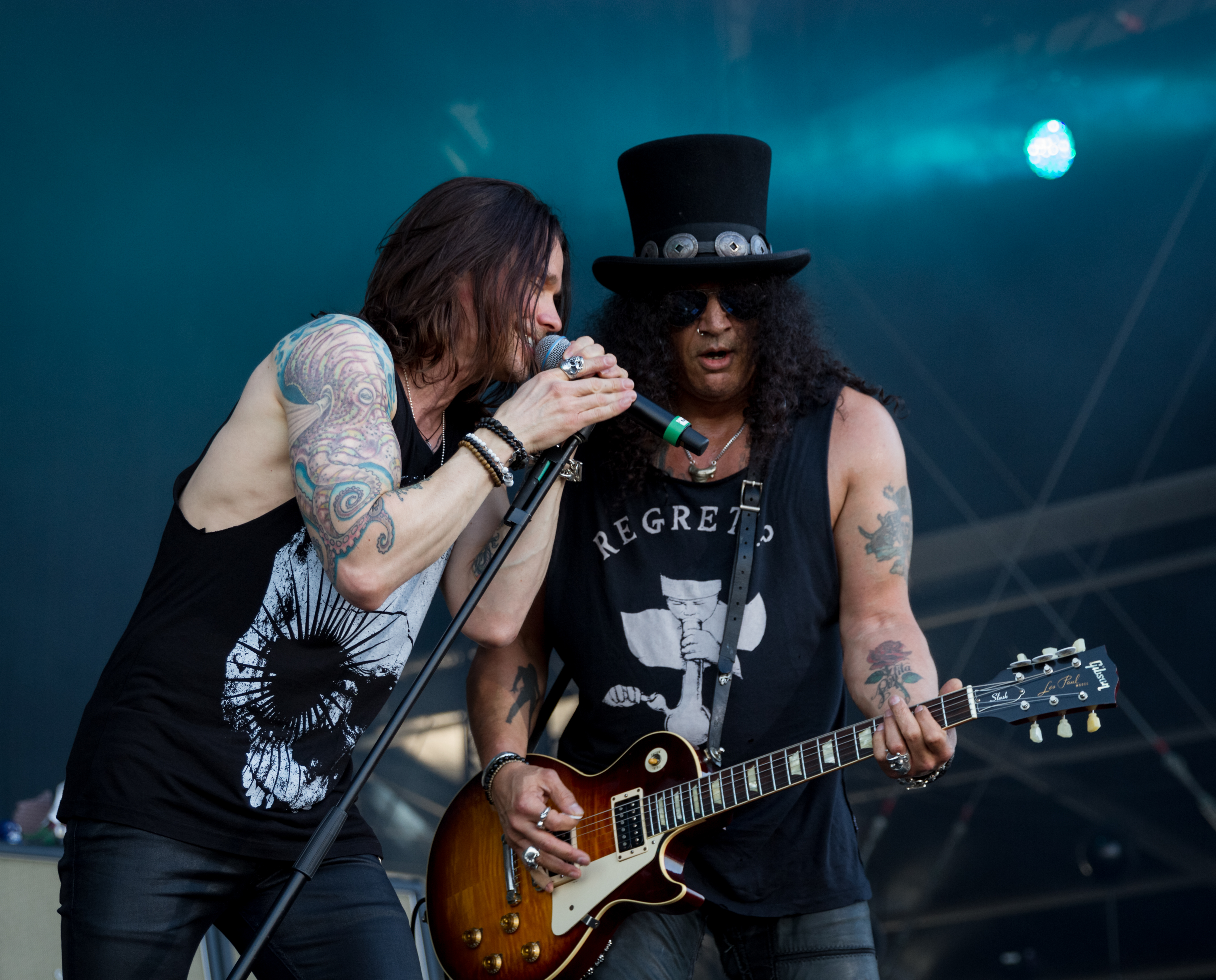 Slash feat Myles Kennedy & The Conspirators - Rock am Ring 2015